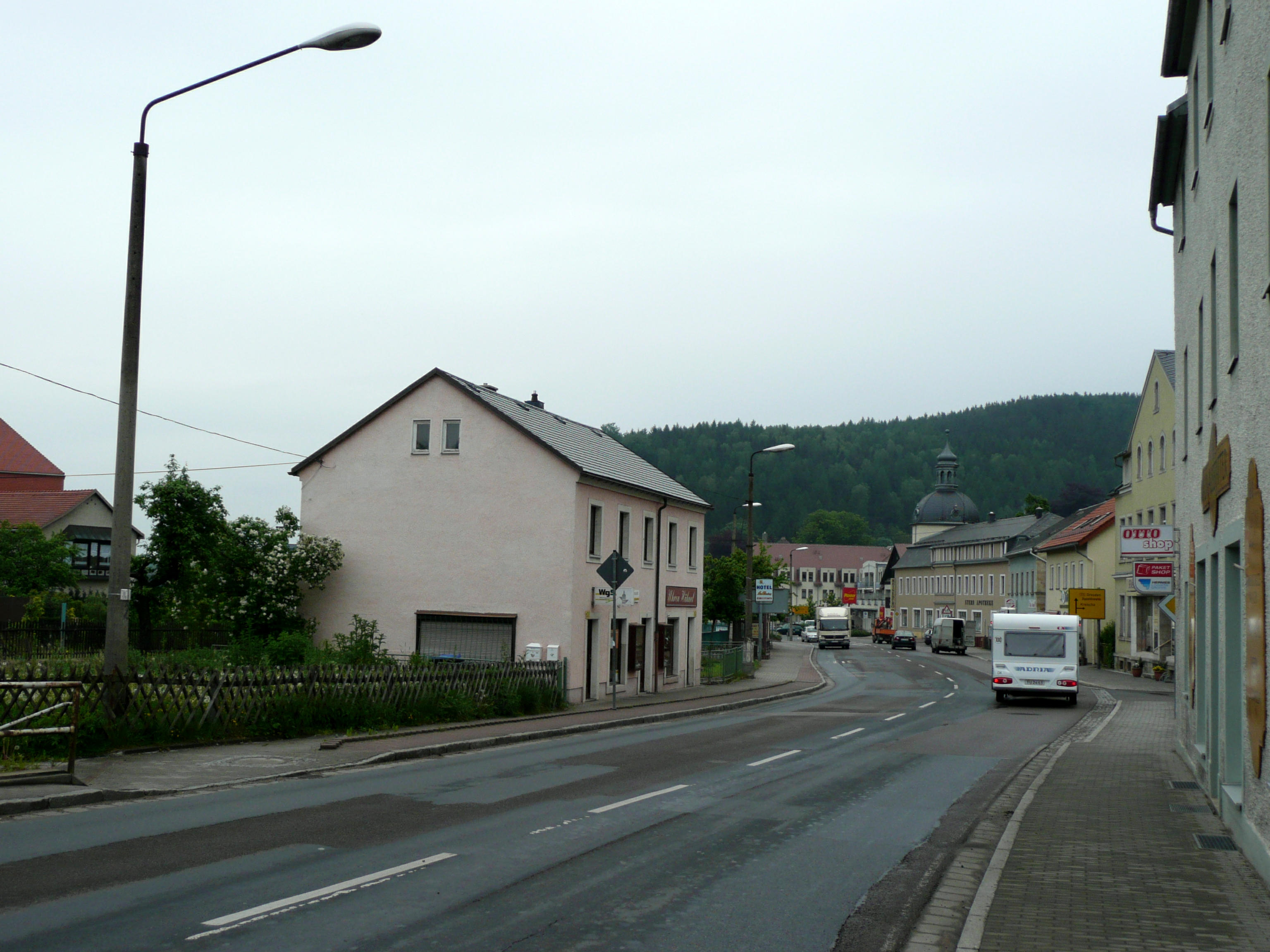 This image shows the federal highway No. 170 from Dresden to Prague in Schmiedeberg, Saxony.